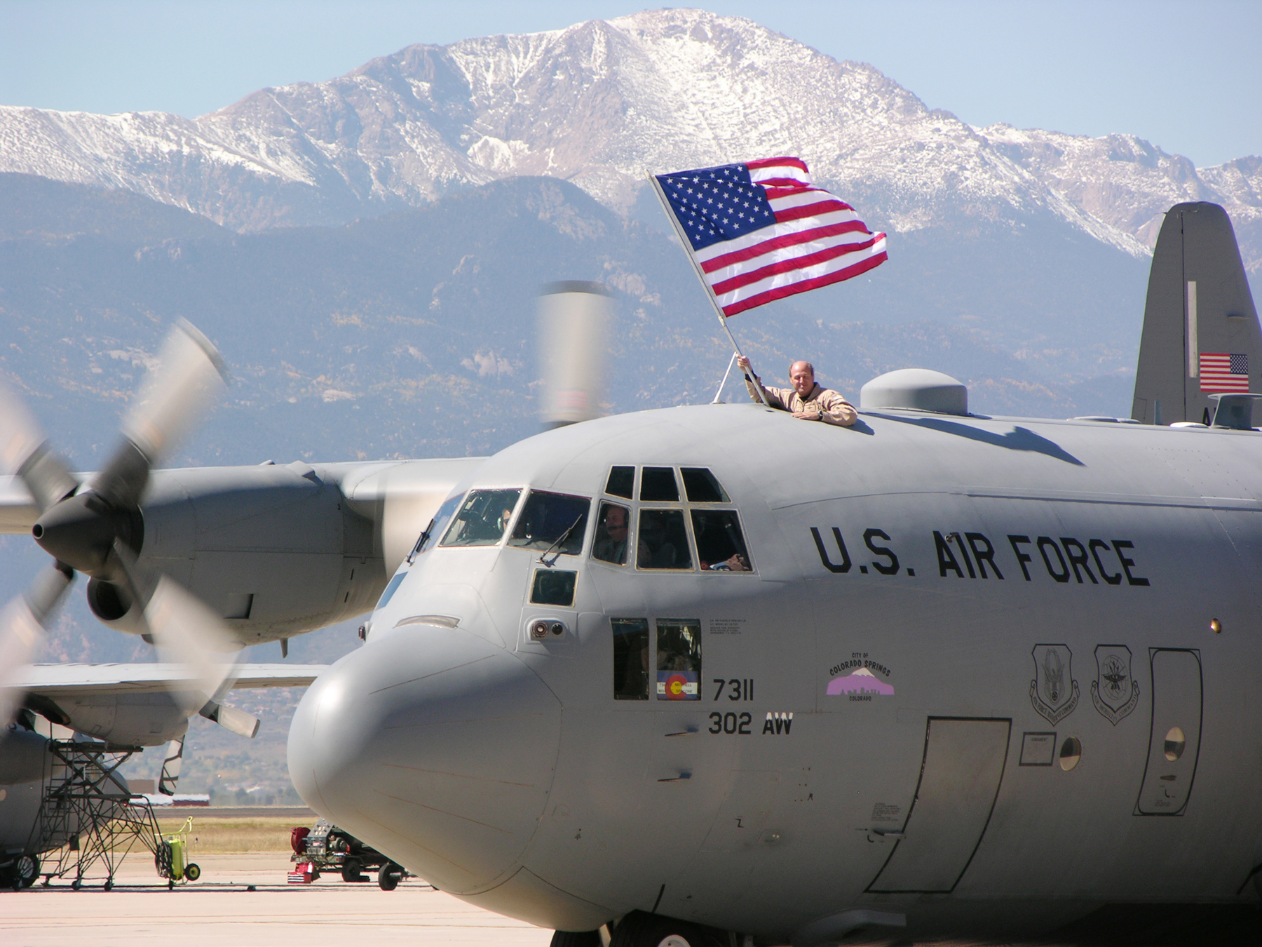 731st Airlift Squadron flight commander, displays the American flag as a 302nd Airlift Wing C-130 taxis past Pikes Peak during a recent homecoming. On Oct. 4, wing members ended 14 months of deployments in support of U.S. Central Command operations in Southwest Asia.